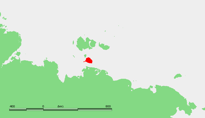 Location of Great Lyakhovsky Island, New Siberian Islands, Russia